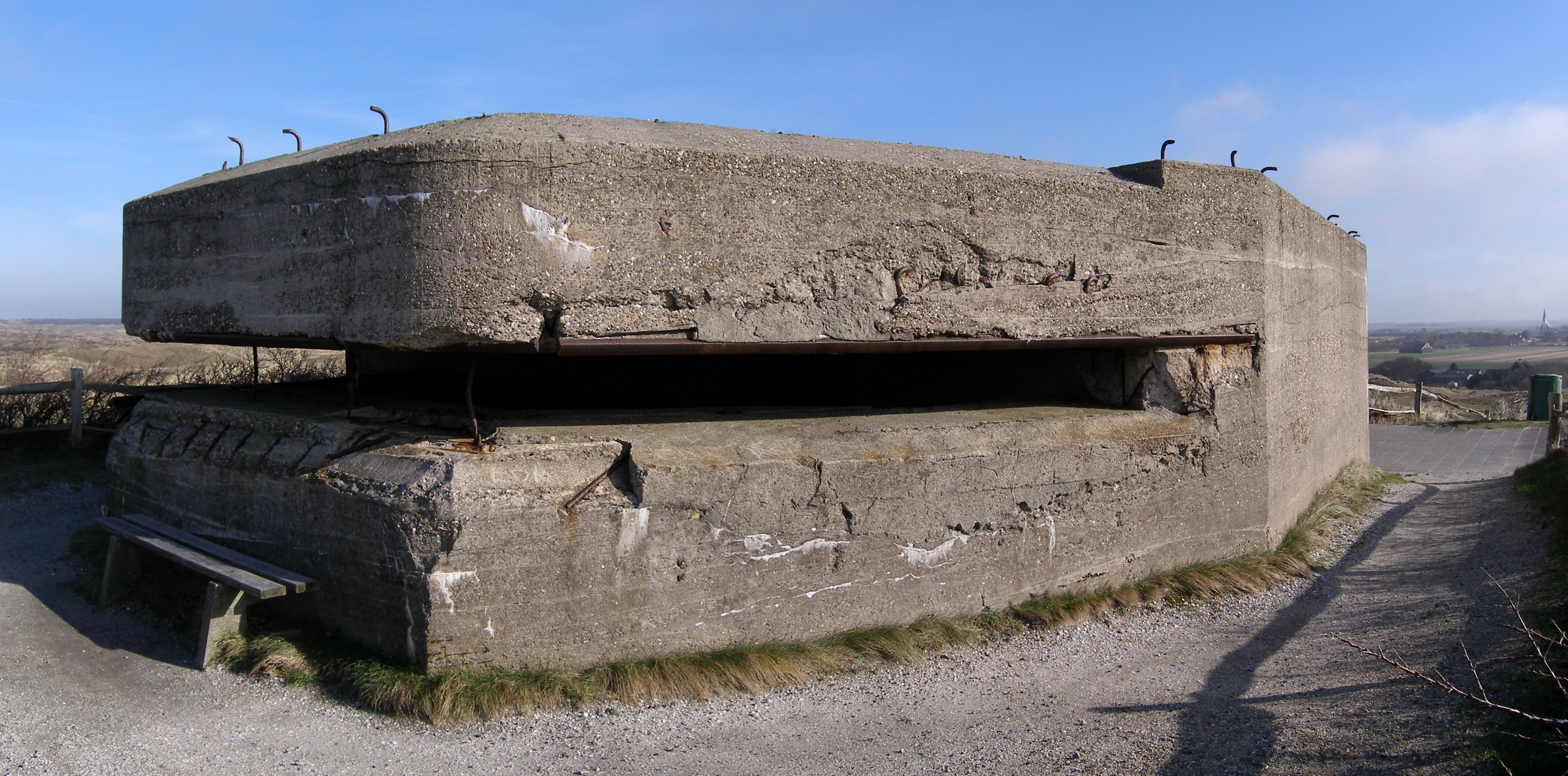 Dutch bunker at Loodsmansduin, near Den Hoorn, on the island Texel. The bunker was built in 1938-1939 and was part of the Den Hoorn battery, which defended the naval base Den Helder before World War II. It was later used by the German occupational forces and is now a provincial monument. In the background on the right, the white church of Den Hoorn is just visible. Panorama of two pictures, stitched with Autostitch.